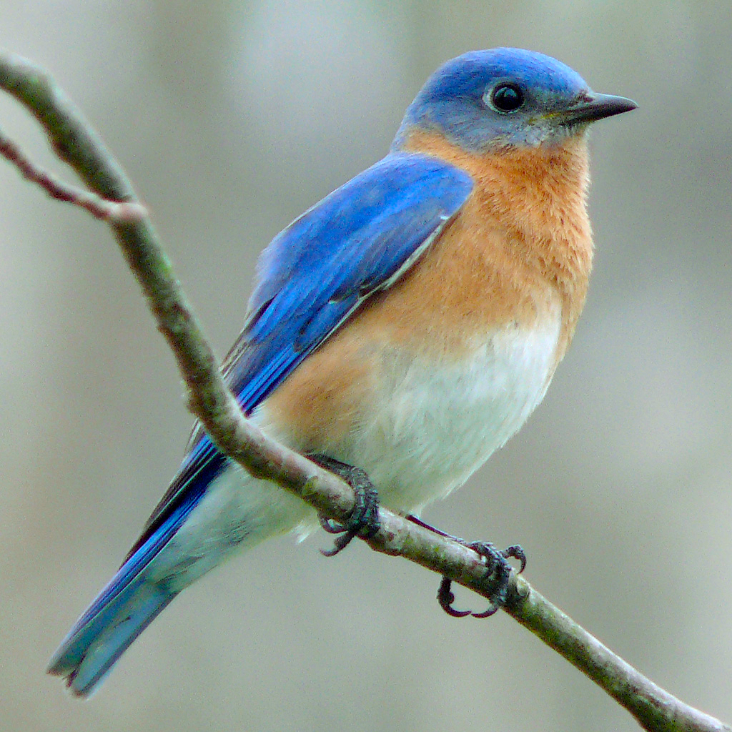 An Eastern Bluebird (Sialia sialis). Photo taken with a Panasonic Lumix DMC-FZ50 in Johnston County, North Carolina, USA.